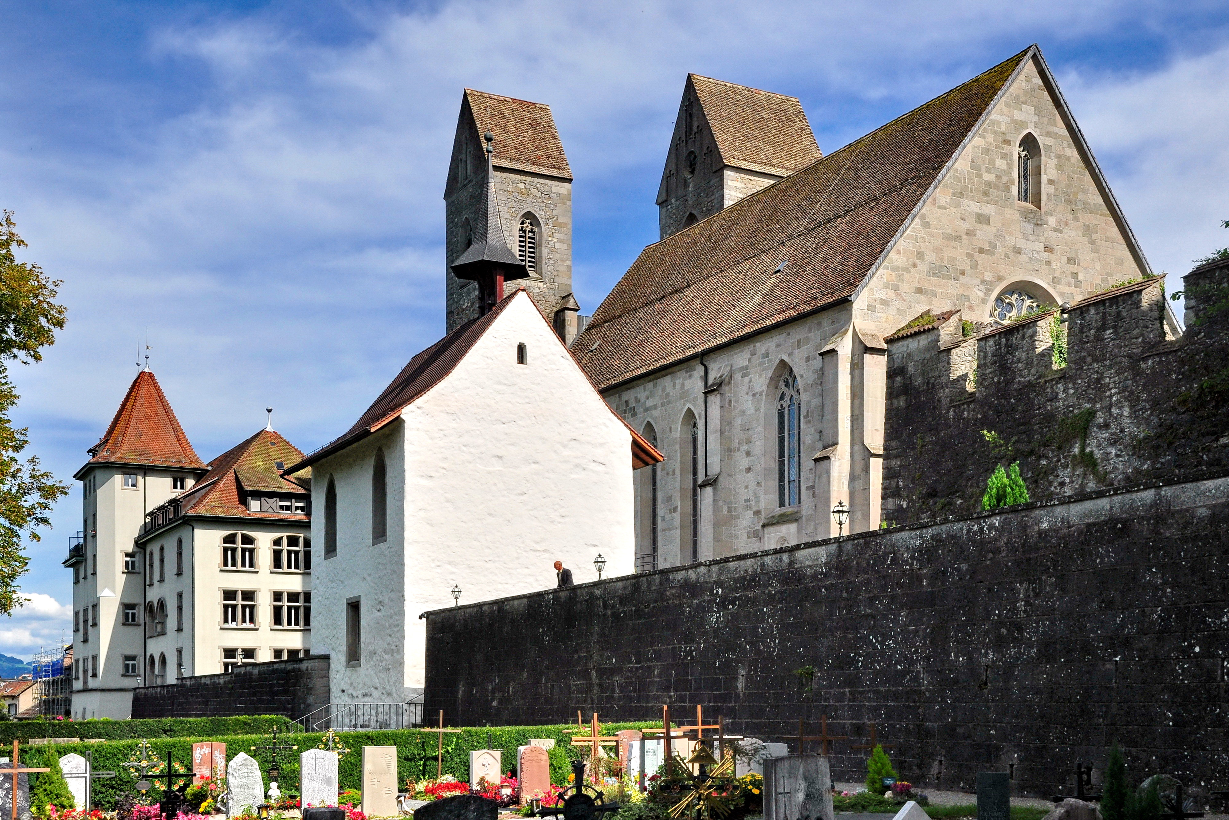 Liebfrauenkapelle (St. Mary's Chapel) and St. John's church as seen from St. John's cemetery, Primarschulhaus Herrenberg in the background.